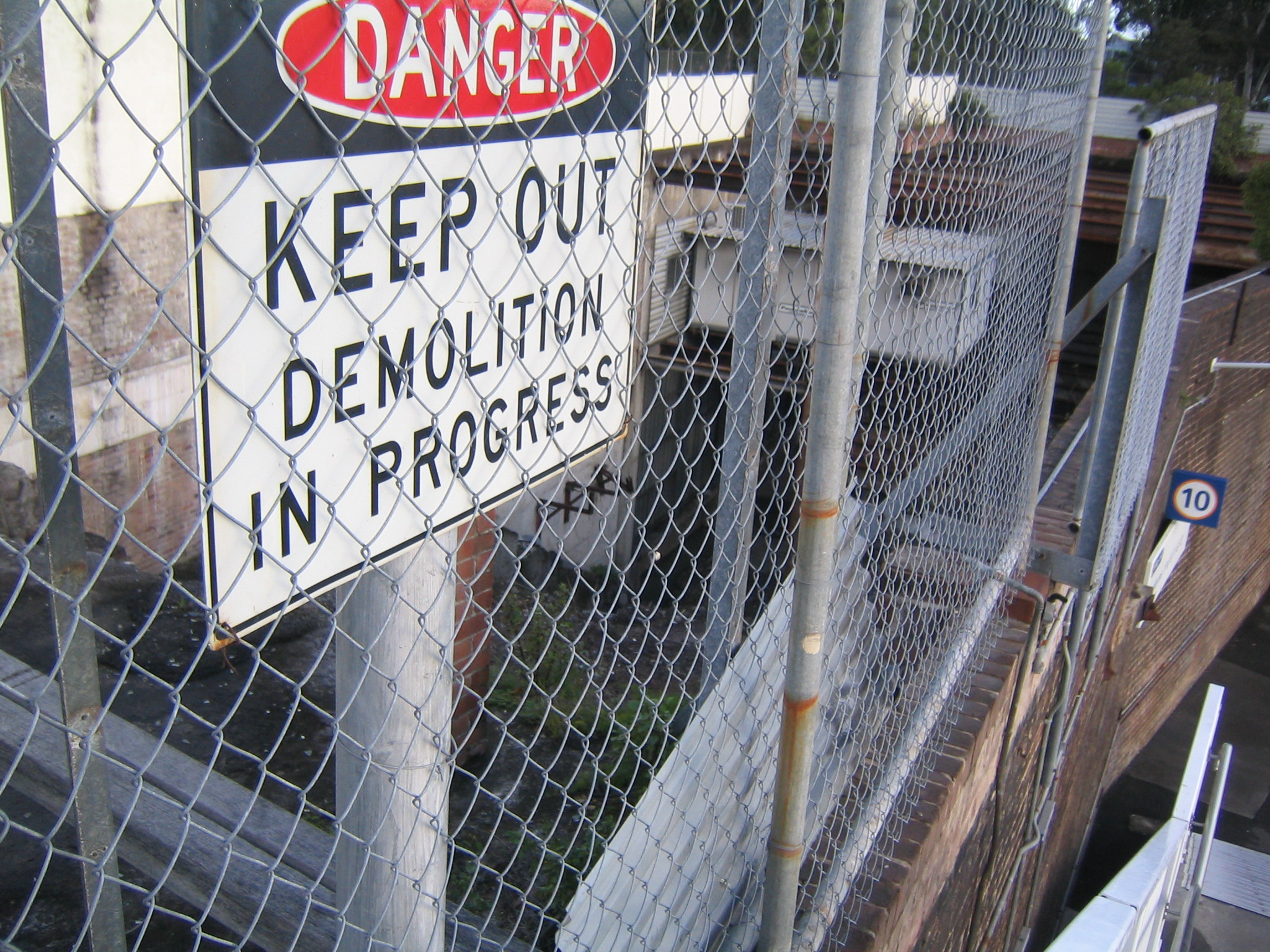 The half built platforms at Redfern Station. The photo was taken from the stairs leading down to platform 10.